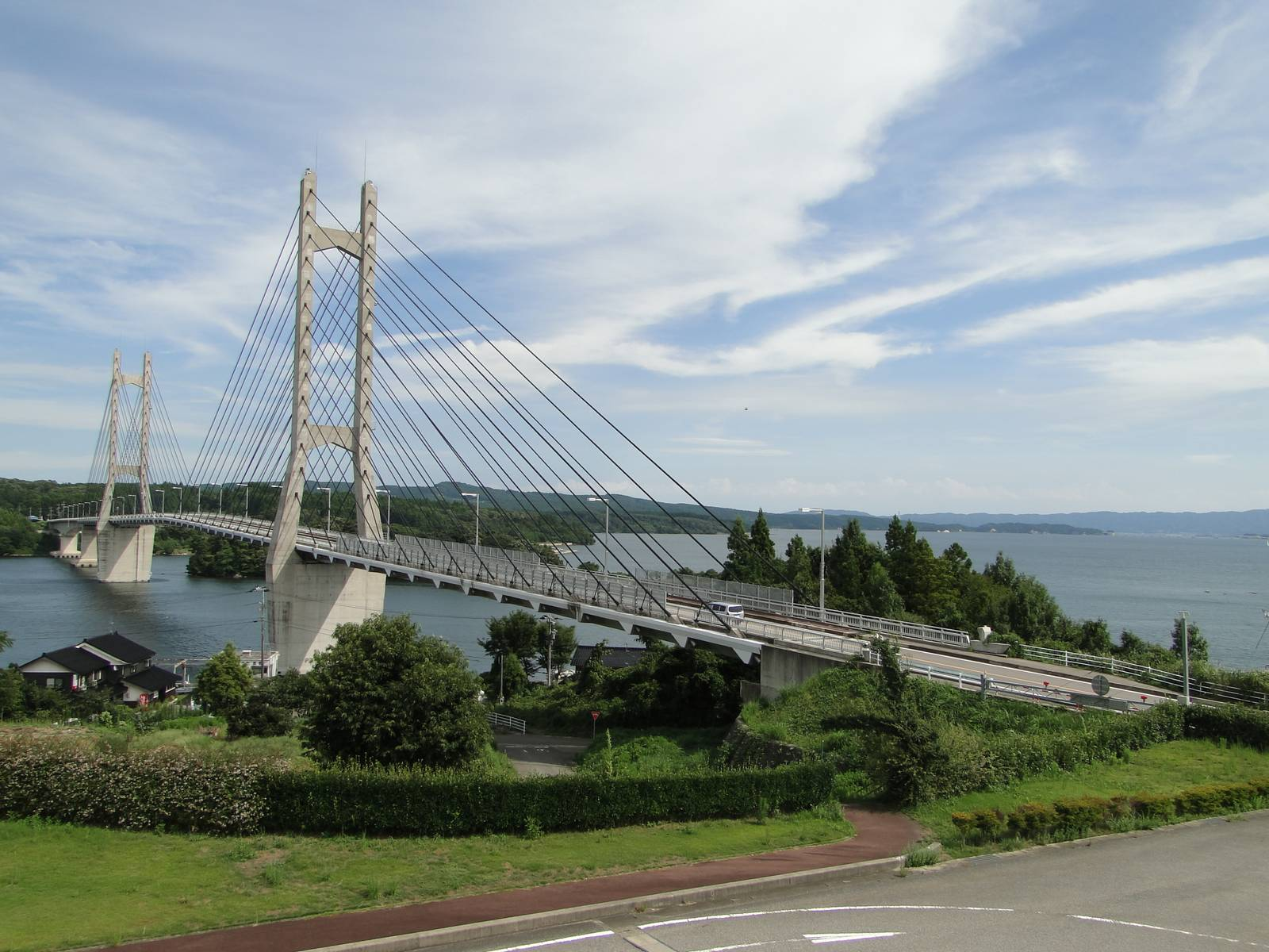 Nakanoto Nougyou Kyou